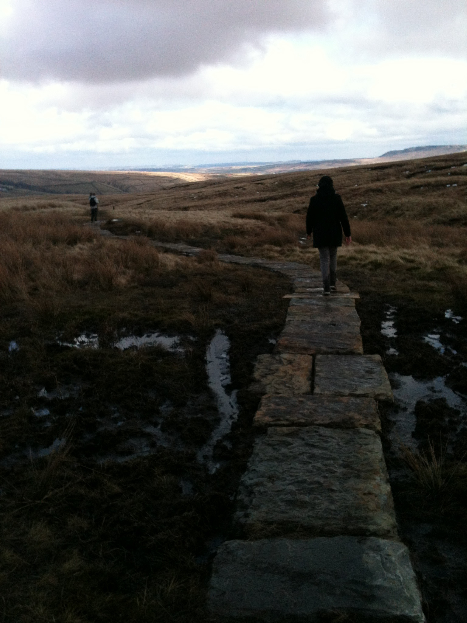 A stone path in the Peak District, built by the Ramblers